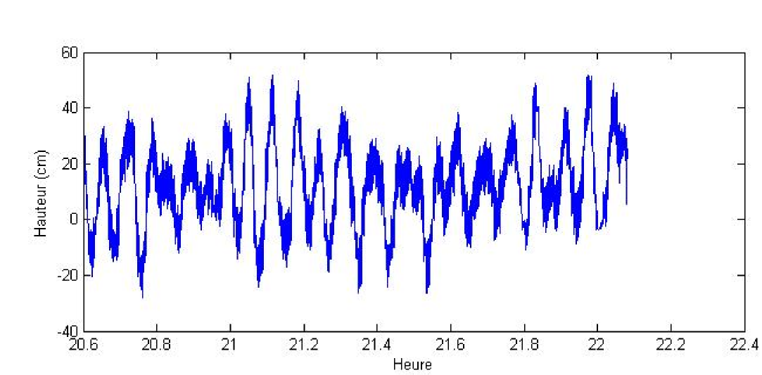 Graph of recorded water level at Port Tudy harbor (in meters) as a function of time (in hours), showing a nice 60-cm high seiche with 4 to 5 minutes periods (the astronomical tide has been subtracted).